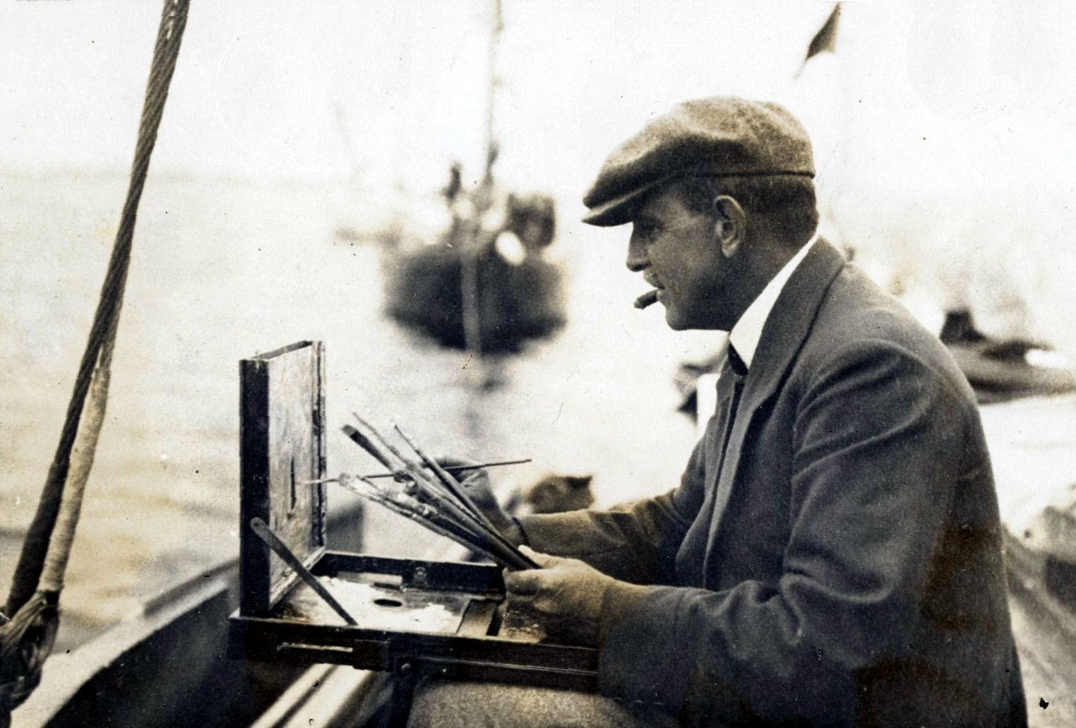 Carl August Breitenstein